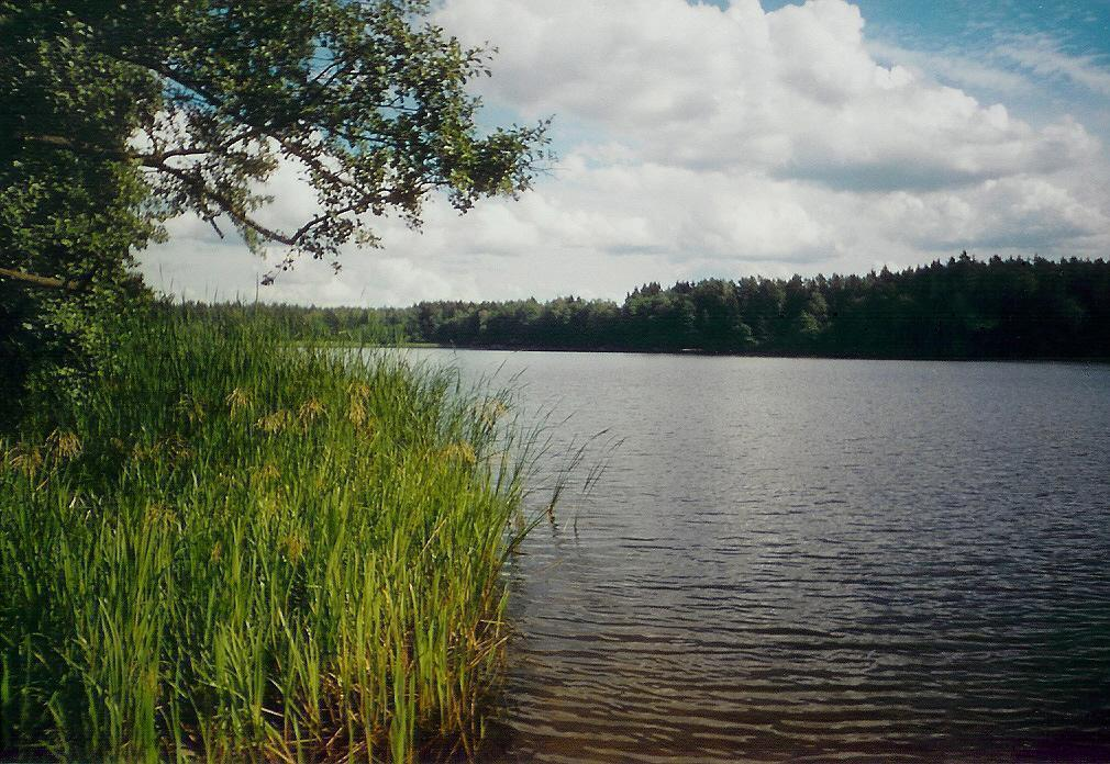 The Hajka lake (Poland)